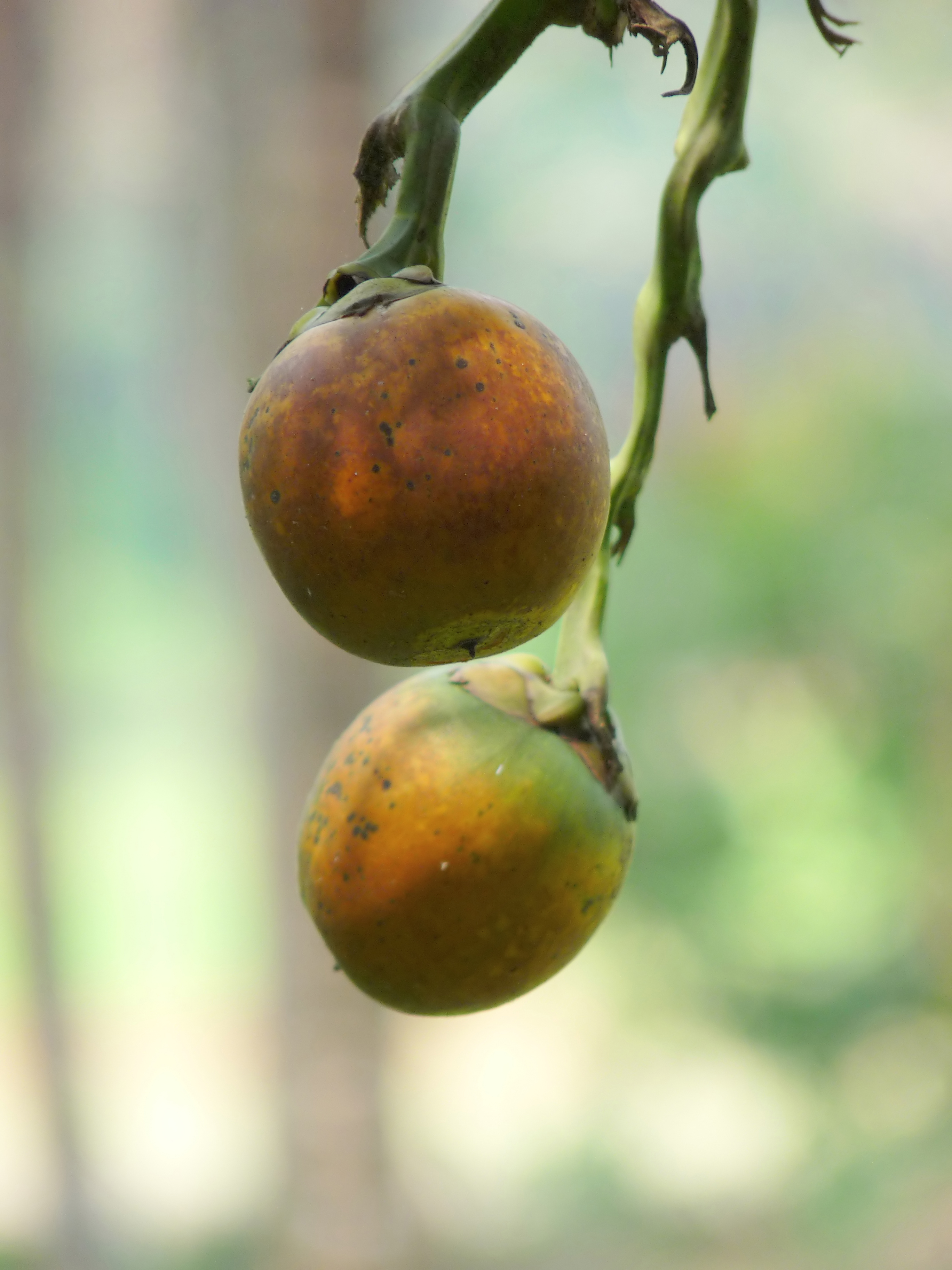 The areca nut is the seed of Areca catechu, Betel Palm, Areca palm, Areca-nut palm, a species of palm which grows in much of the tropical Pacific, Asia, and parts of east Africa. The palm is believed to have originated in either Indonesia/Malaysia or the Philippines. Areca is derived from a local name from the Malabar Coast of India and catechu is from another Malay name for this palm, caccu. This palm is often called the betel tree because its fruit, the areca nut, is often chewed along with the betel leaf, a leaf from a vine of the Piperaceae family.